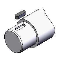 Part of a shaft with a feather key in exploded view. Own work, 1st March 2006, Borowski